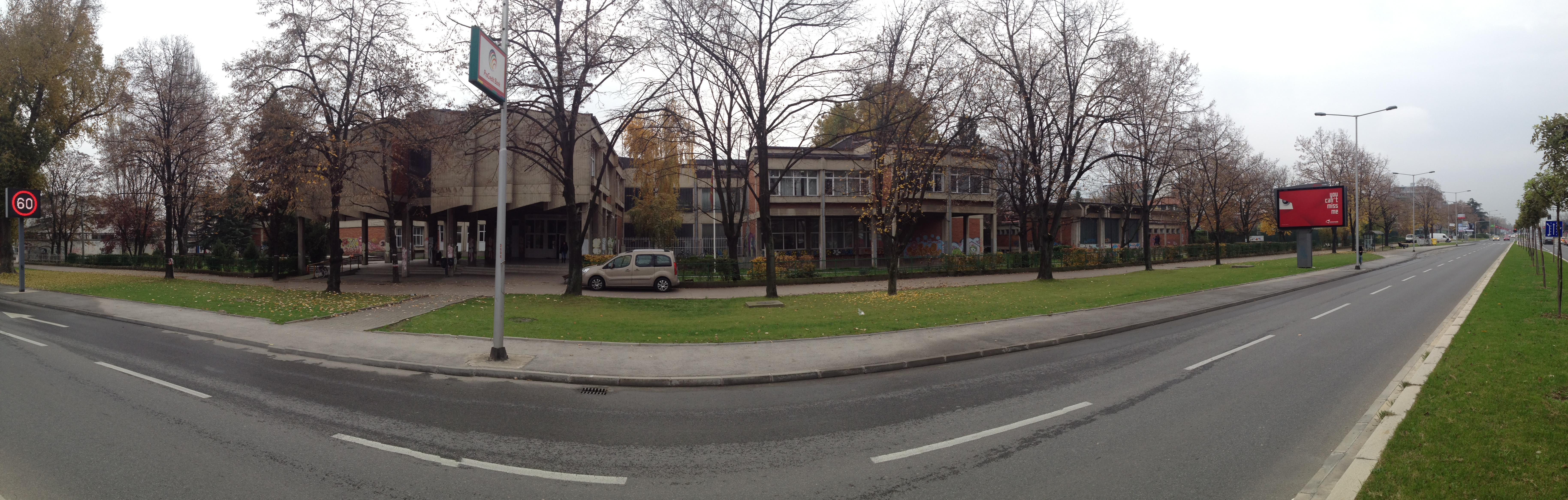 gymnasium in Skopje, Republic of Macedonia